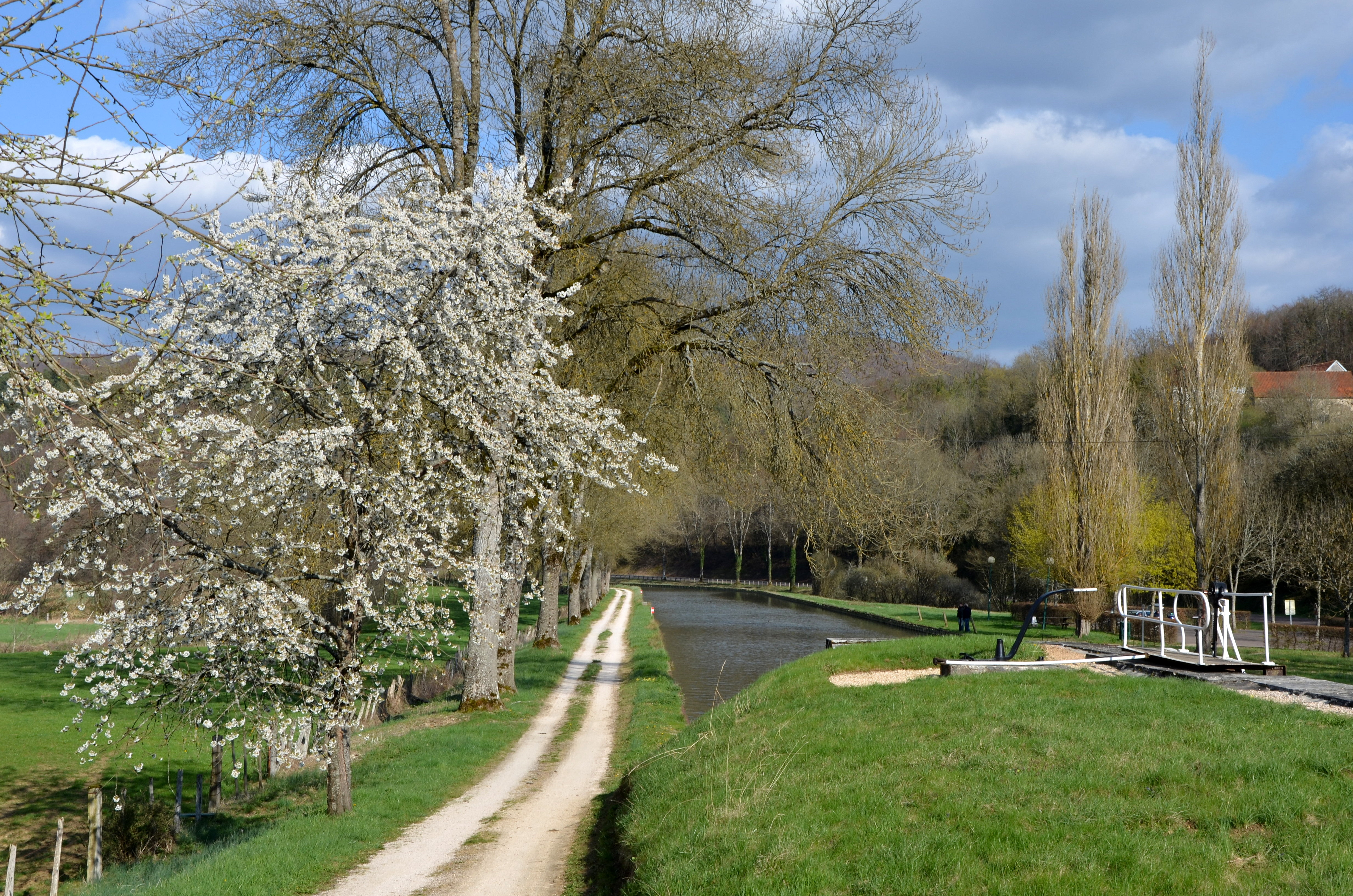 Lock on the canal of Burgundy at Pont d'Ouche sur le canal de Bourgogne, Côte d'Or, Bourgogne, France